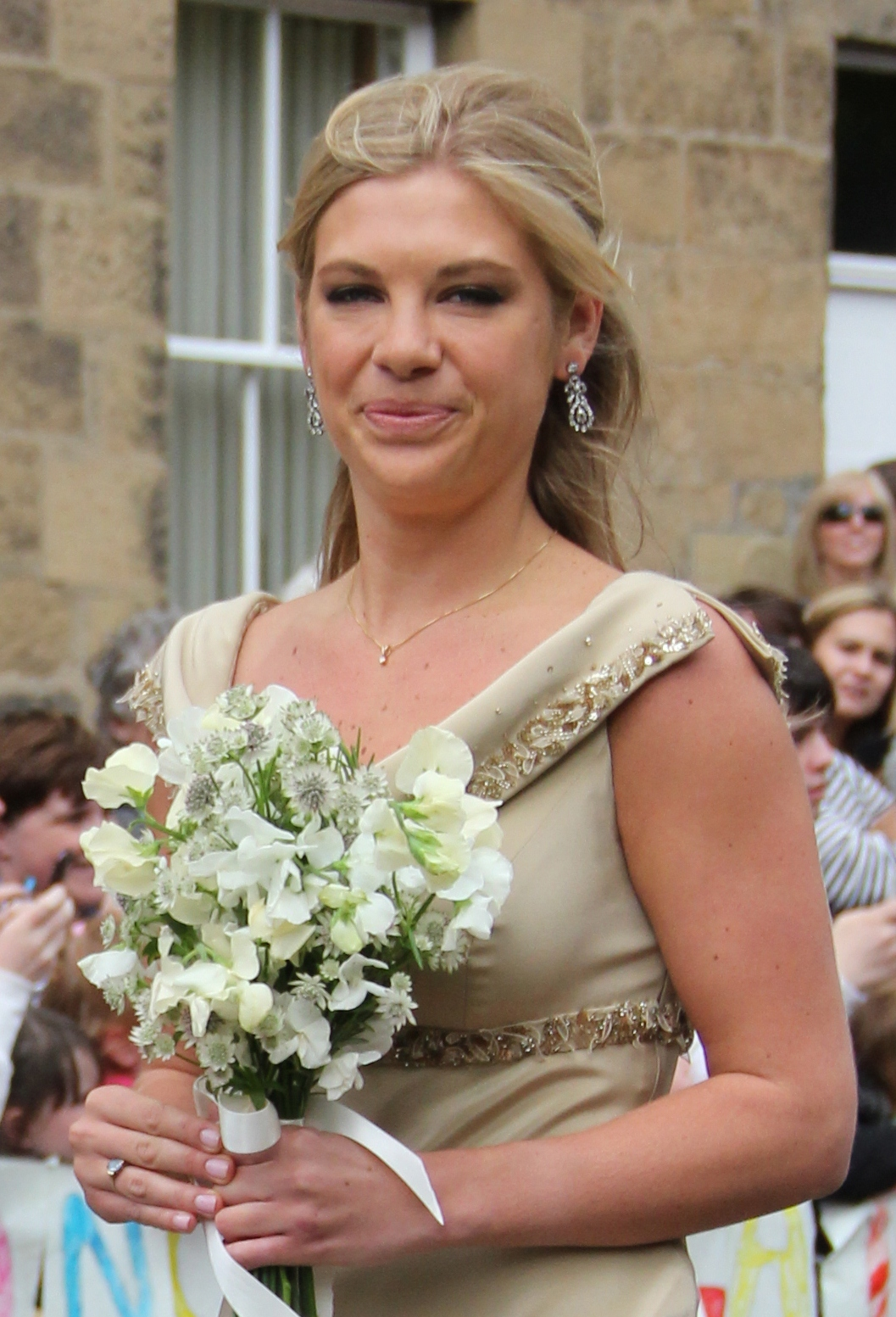 Chelsy Davy at the wedding of Lady Melissa Percy